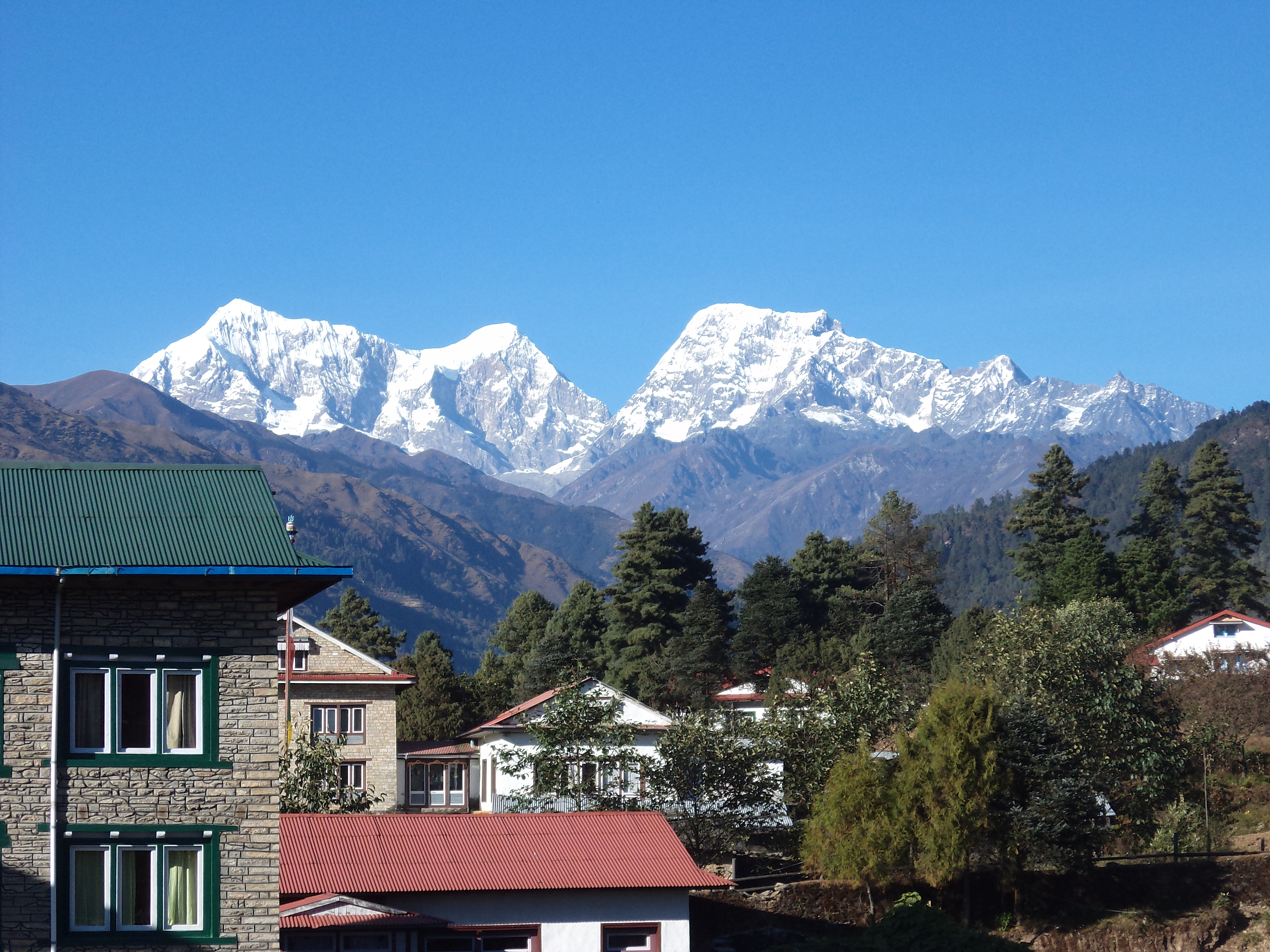 Good hotels.